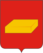 Shuya (Ivanovo oblast), coat of arms